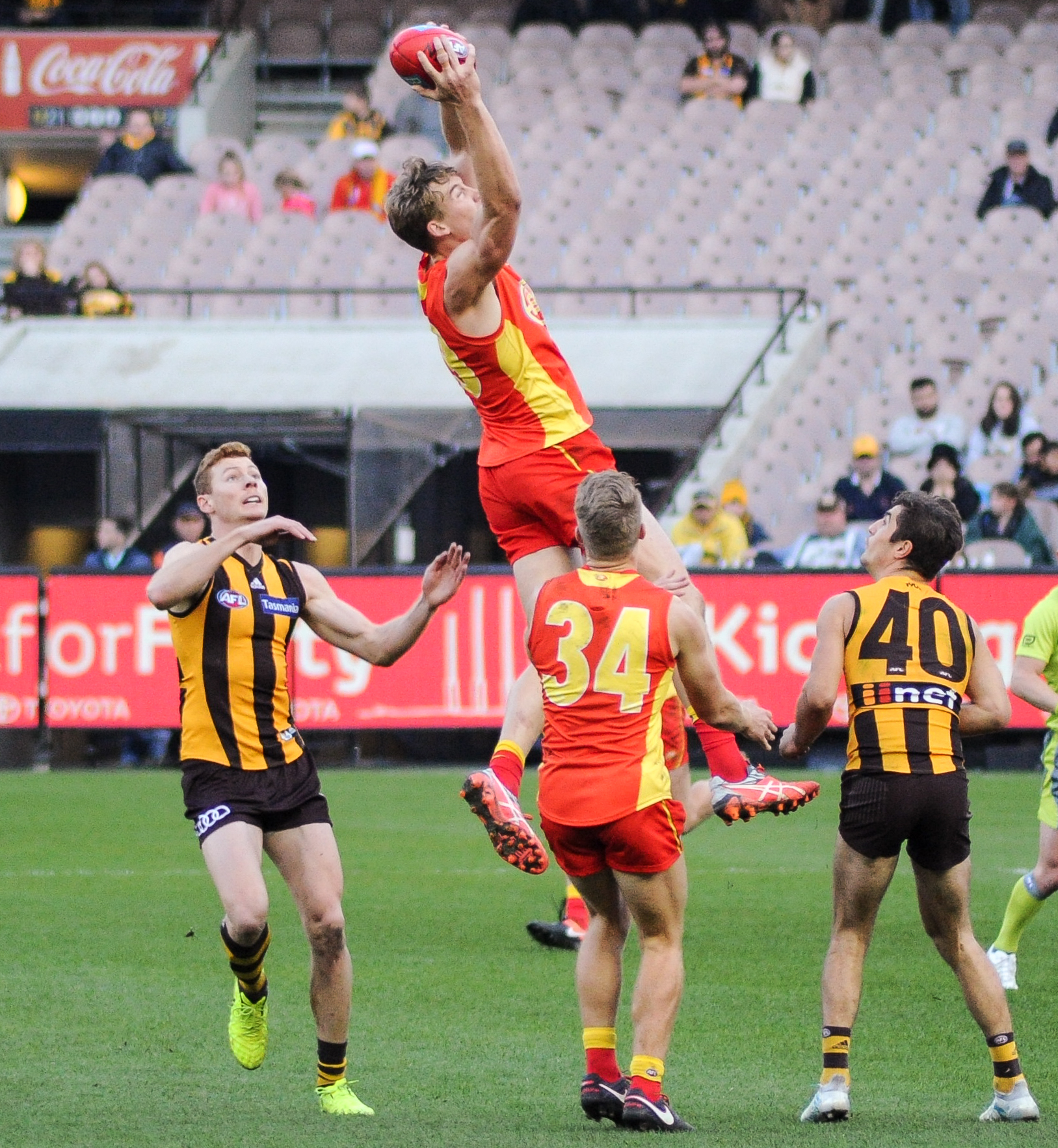 Tom Lynch marking during the AFL round twelve match between Melbourne and Collingwood on 10 June 2017 at the Melbourne Cricket Ground in Melbourne, Victoria.